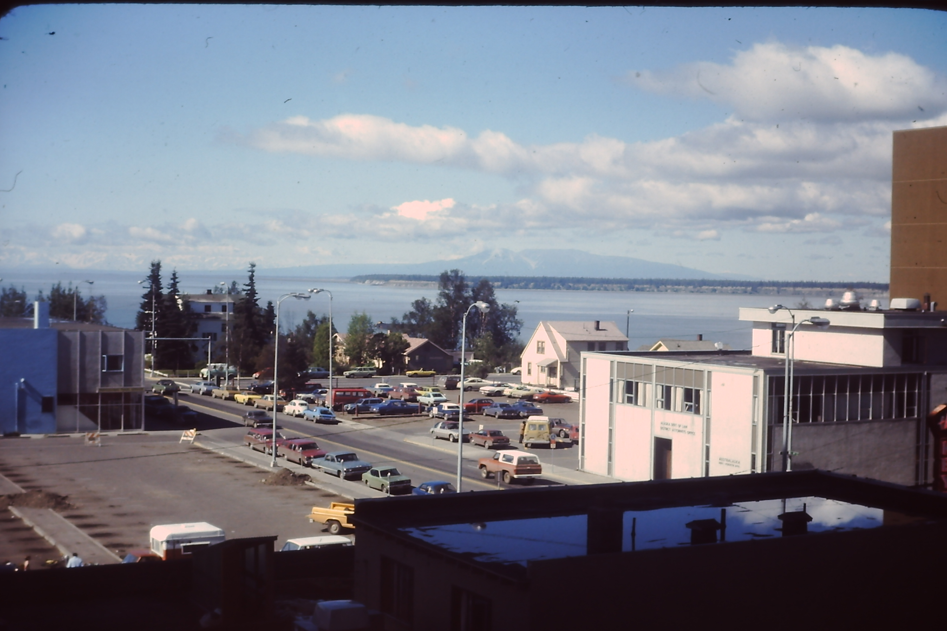 View of Anchorage, Alaska and the bay beyond.